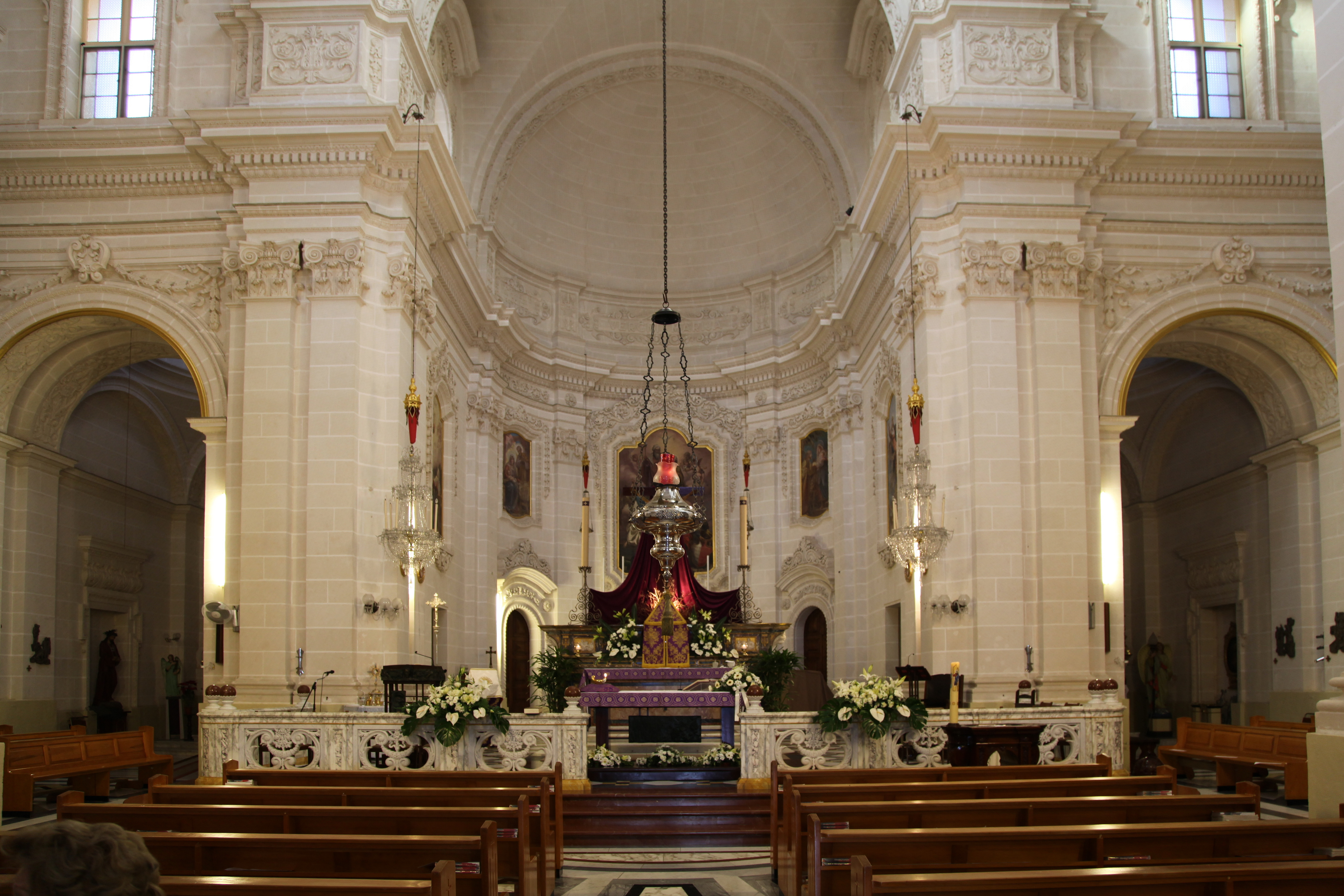 Mellieħa Parish Church at Misraħ il-Parroċċa in Mellieħa